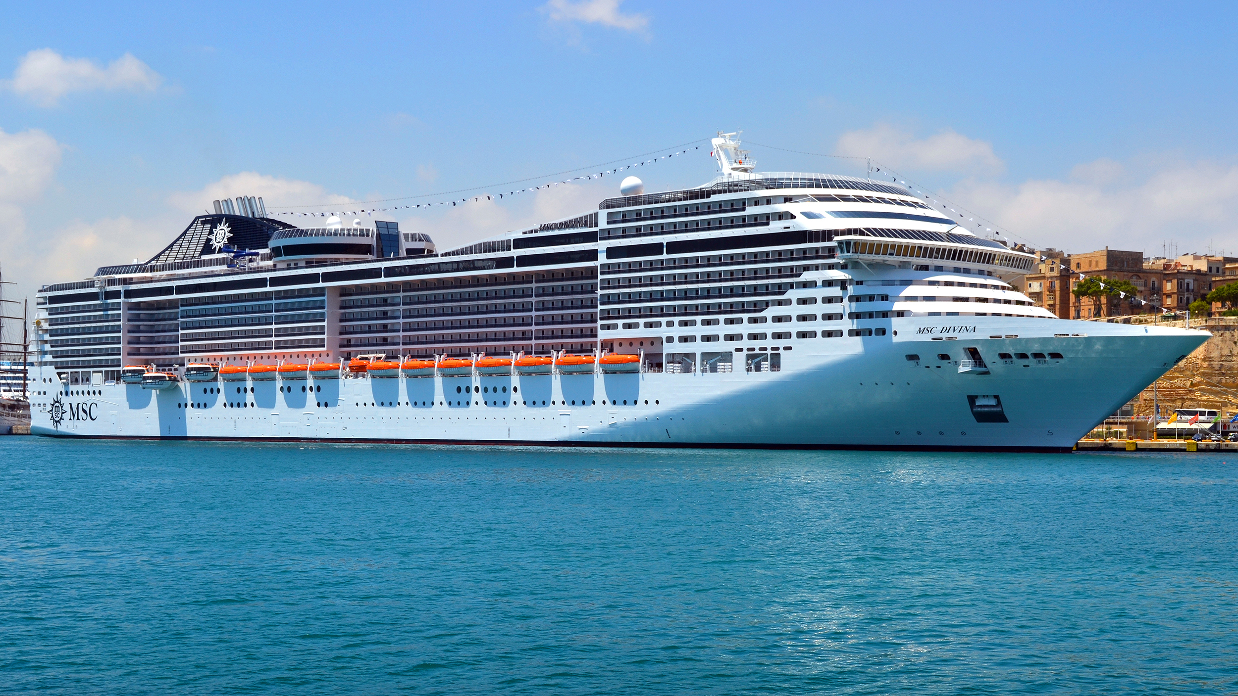 MSC Divina in Grand Harbour, Malta on its maiden cruise